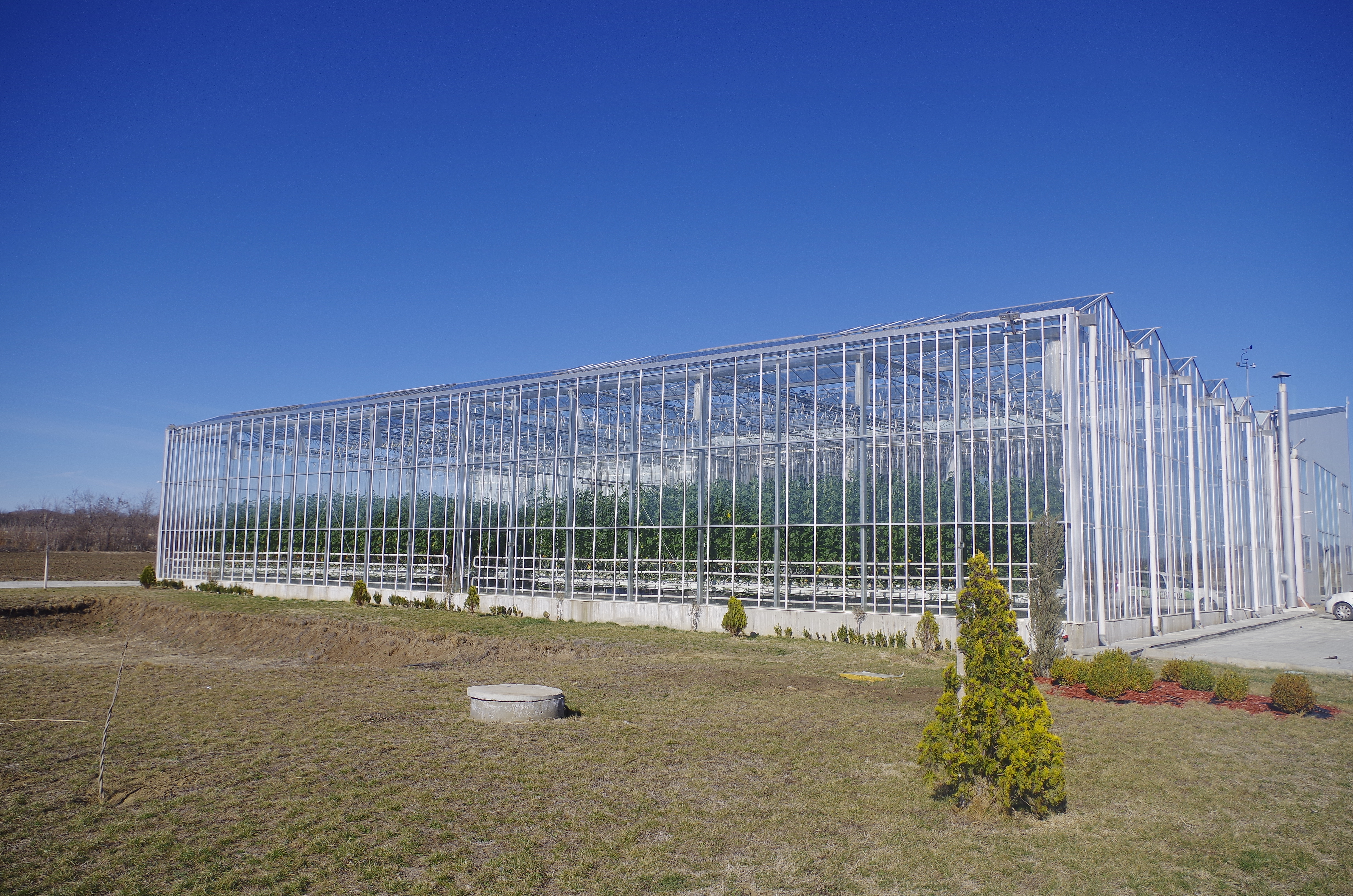 Greenhouse in Ovce pole region - Macedonia